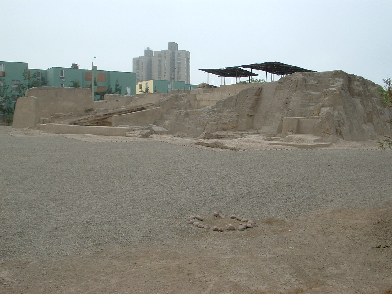 Author: Roger Haro